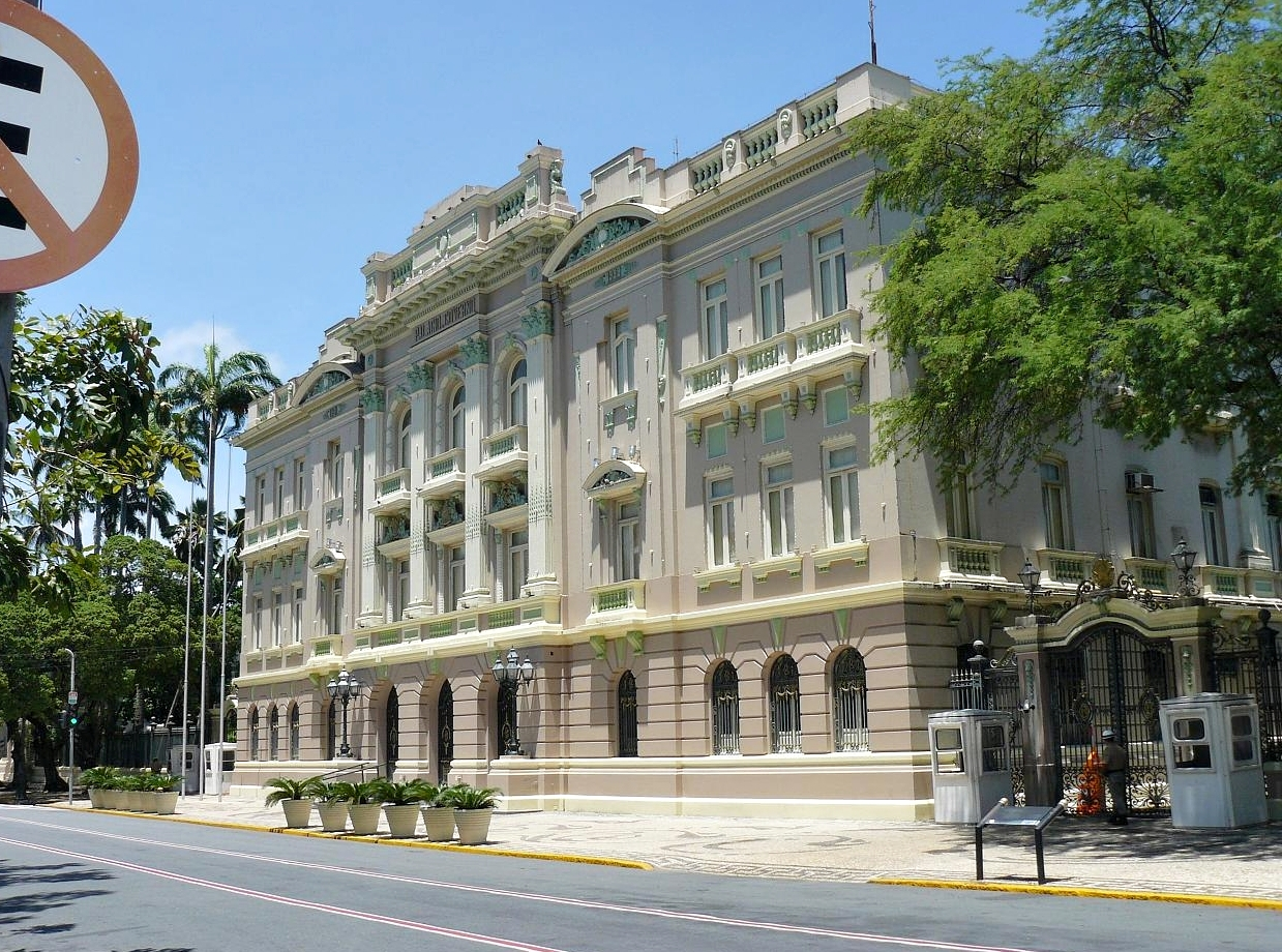 Government Palace in Recife, Brazil